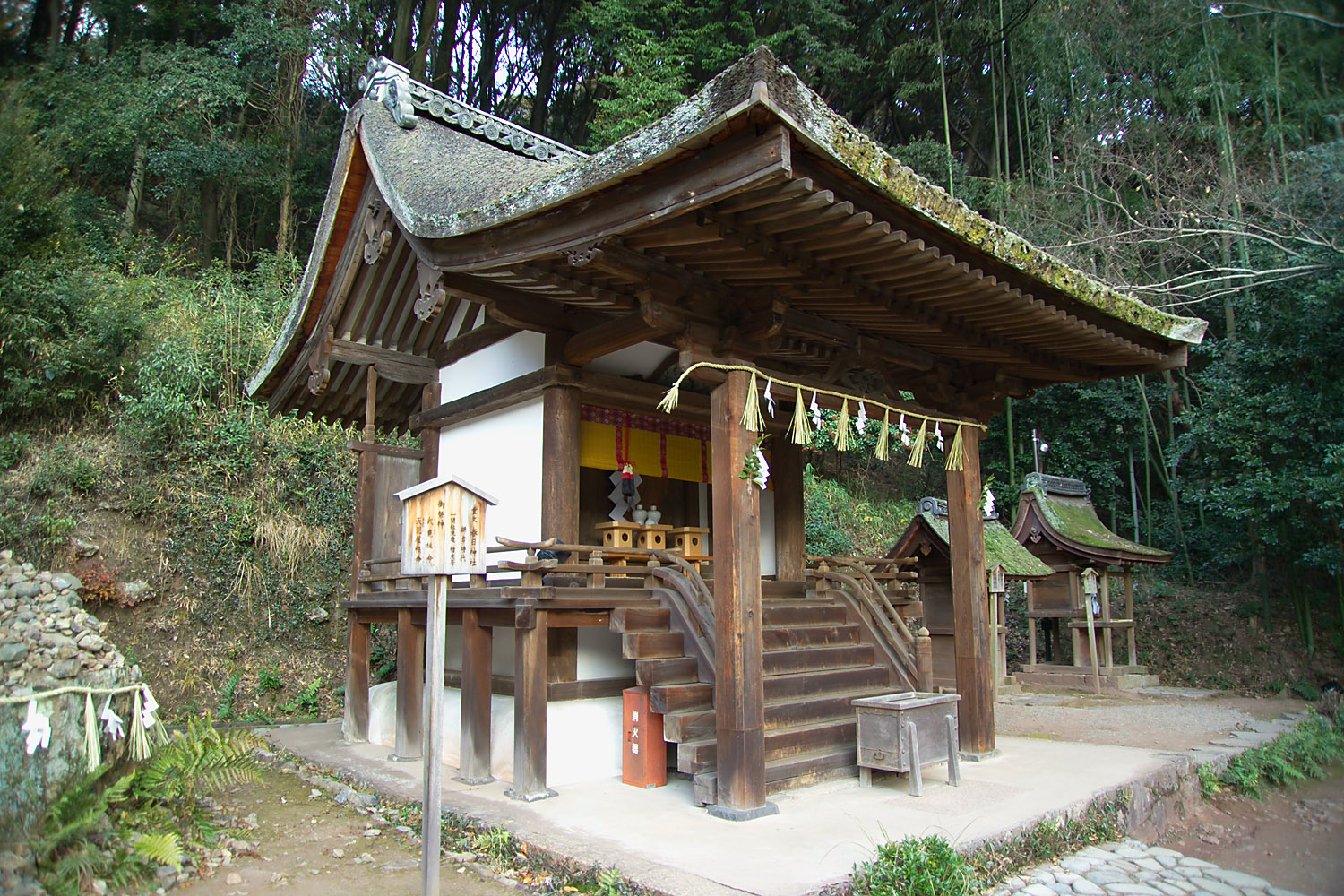 This is the Kasuga Shrine at the Ujigami Jinja, a shrine in the city of Uji, Kyoto prefecture. I took the photo and contribute my rights in the file to the public domain; individuals and organizations retain rights to images in the file. National Treasure.